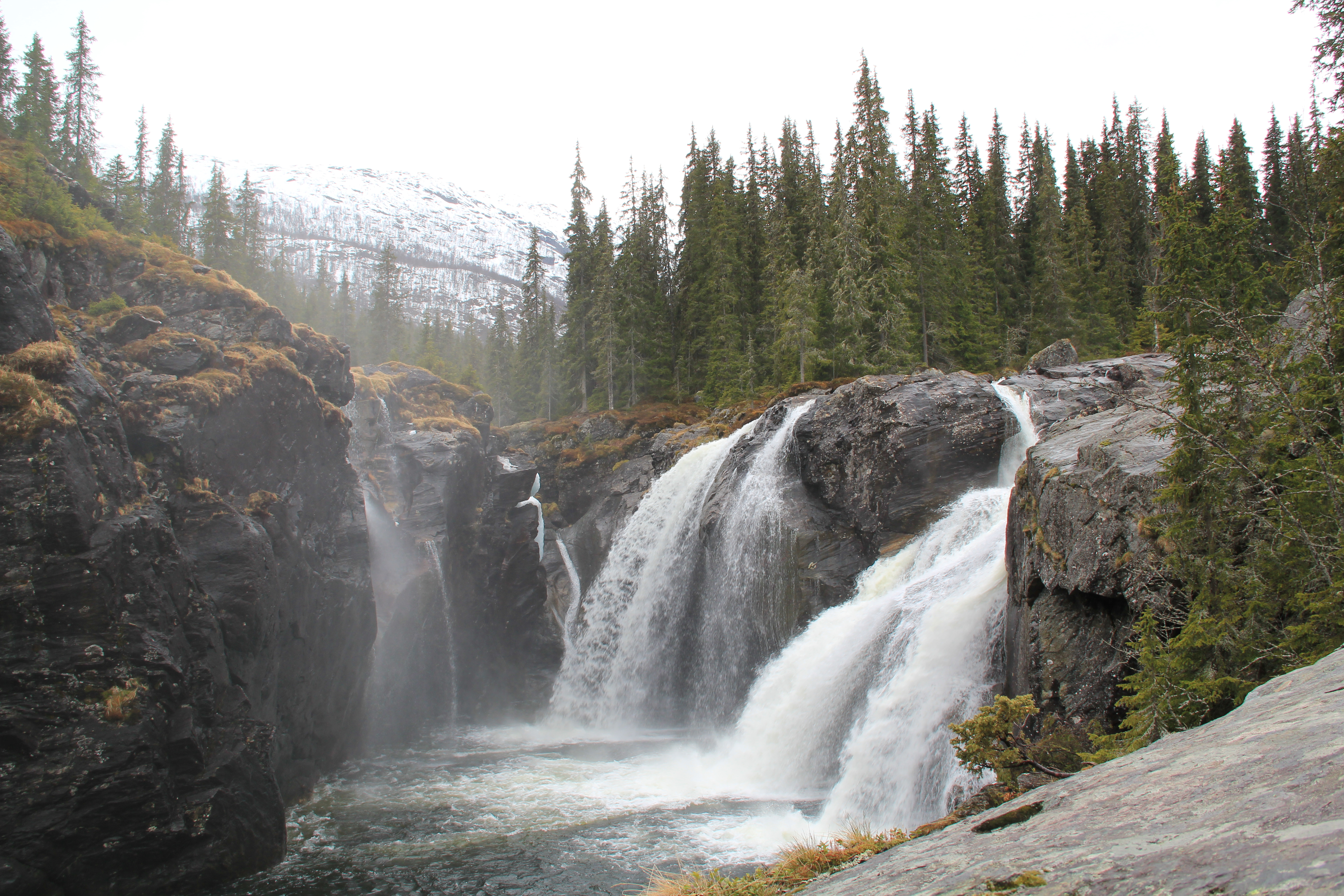 The waterfall Rjukandefoss in Hemsedal, Norway